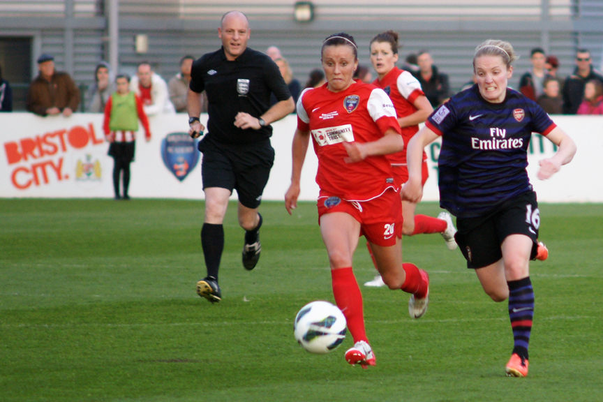 Natasha Harding in action vs Arsenal